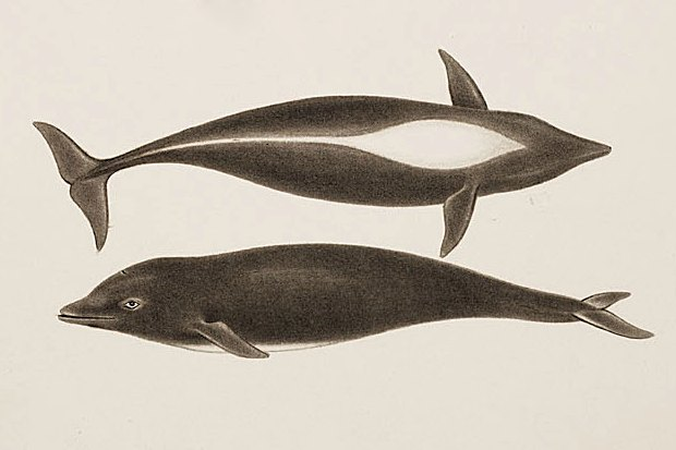 Plate 7 of Mammalogy section in Mammalogy and Ornithology (1858).